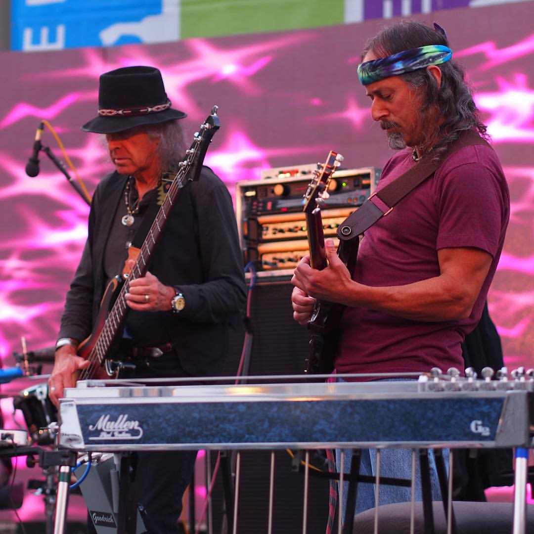 Moonalice playing in Union Square, San Francisco